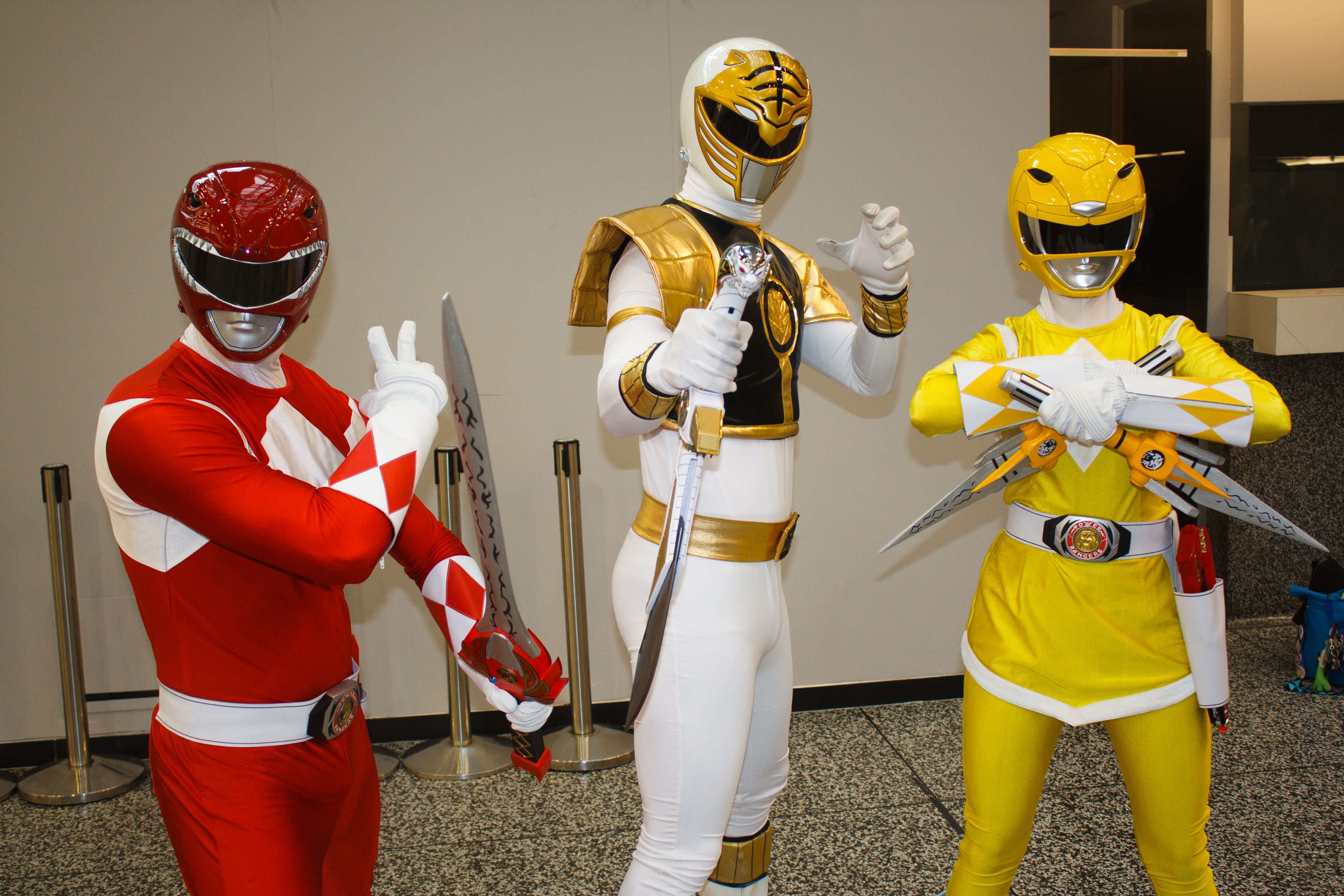 Cosplay on Sunday, day three, of the Montreal Comiccon 2016.